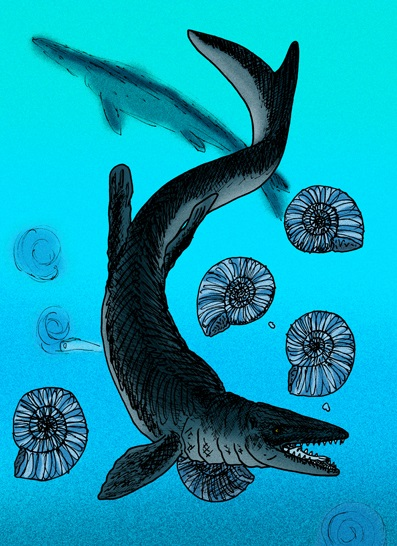 My restoration of the mosasaur Mosasaurus hoffmanni as compared to the giant ammonite, Parapuzosia (C) Stanton F. Fink